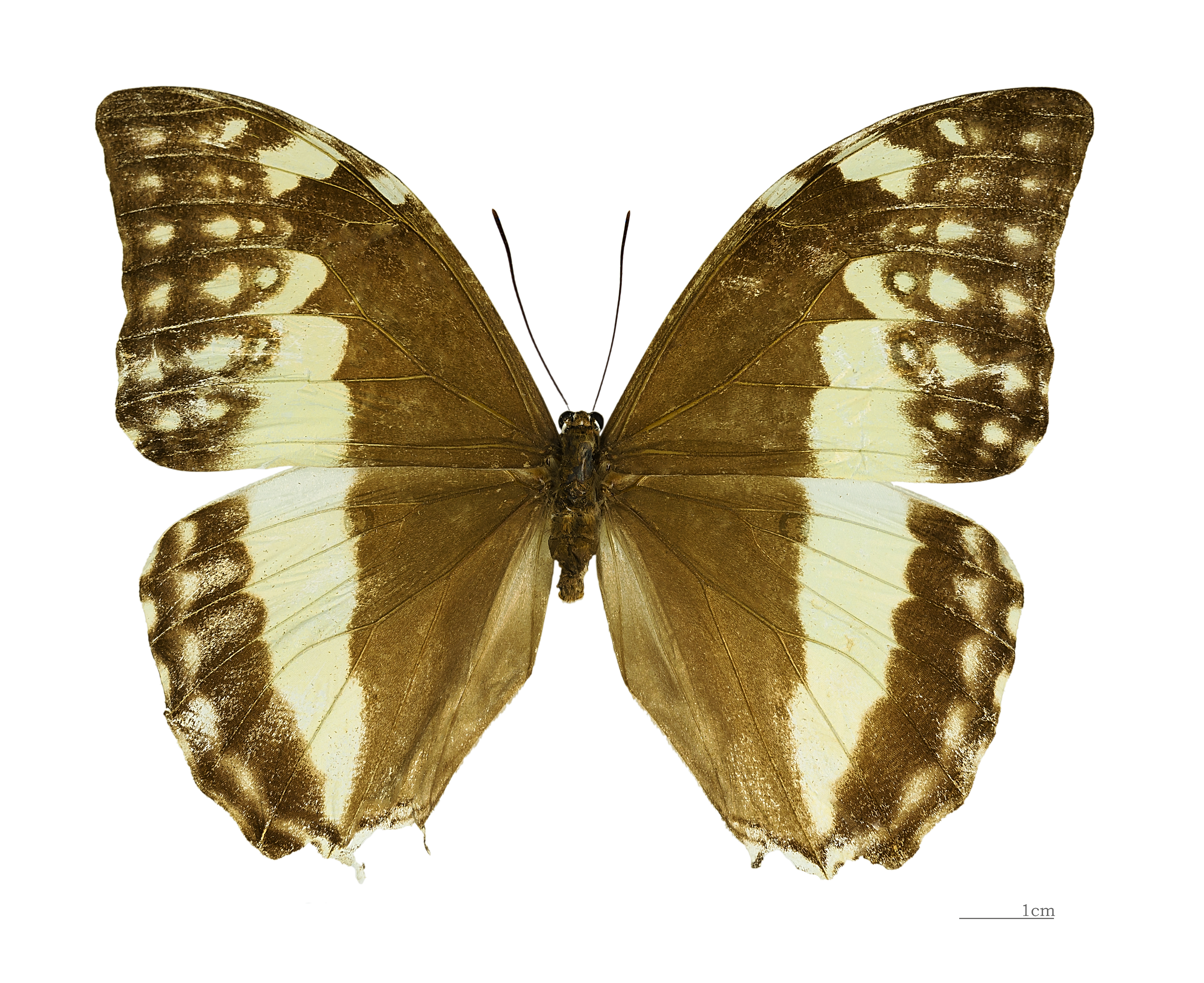 Empress Eugénie Morpho - Dorsal side